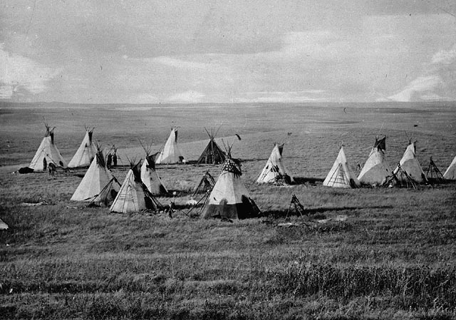 Original description: Cree Camp on the prairie, south of Vermilion (Lat N. 53 Long W. 111 nearly) Sept. 1871.